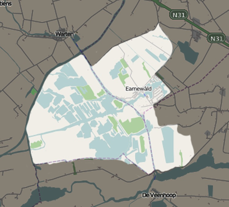 This map may be incomplete, and may contain errors. Don't rely solely on it for navigation.